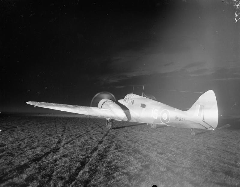 Royal Air Force Flying Training Command, 1940-1945. Airspeed Oxford Mark I, DF231'15', of the Empire Central Flying School, preparing for a night take-off at Hullavington, Wiltshire.